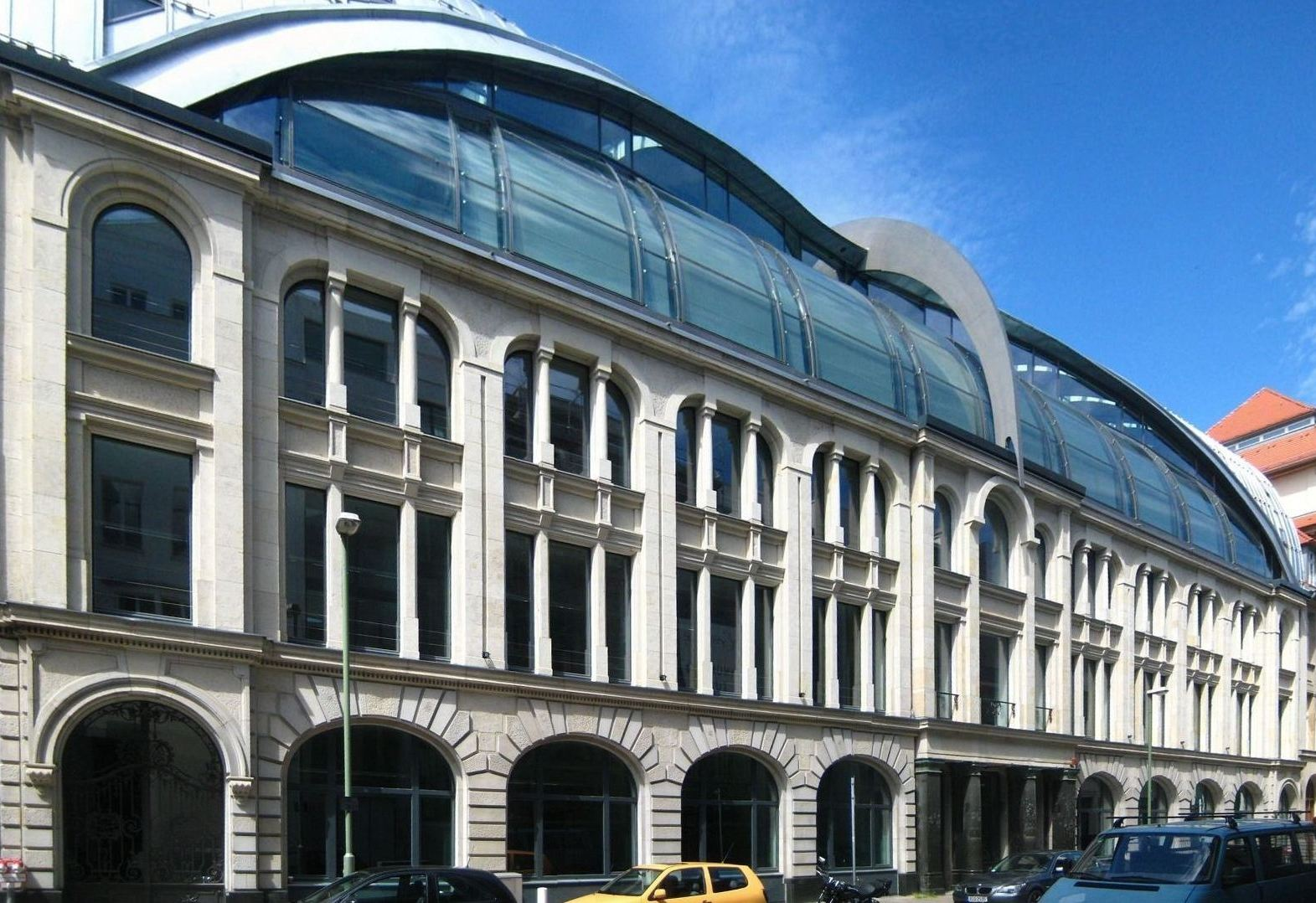 The former Clothing Store Valentin Manheimer at Oberwallstraße No. 6-7 in Berlin-Mitte, built 1889 to 1891 by the architects Albert Blohm and Paul Engel. Until 2009, the building belonged to the Berlin station of the ProSieben-Sat-1-Media AG. It has been designated as a historic landmark.